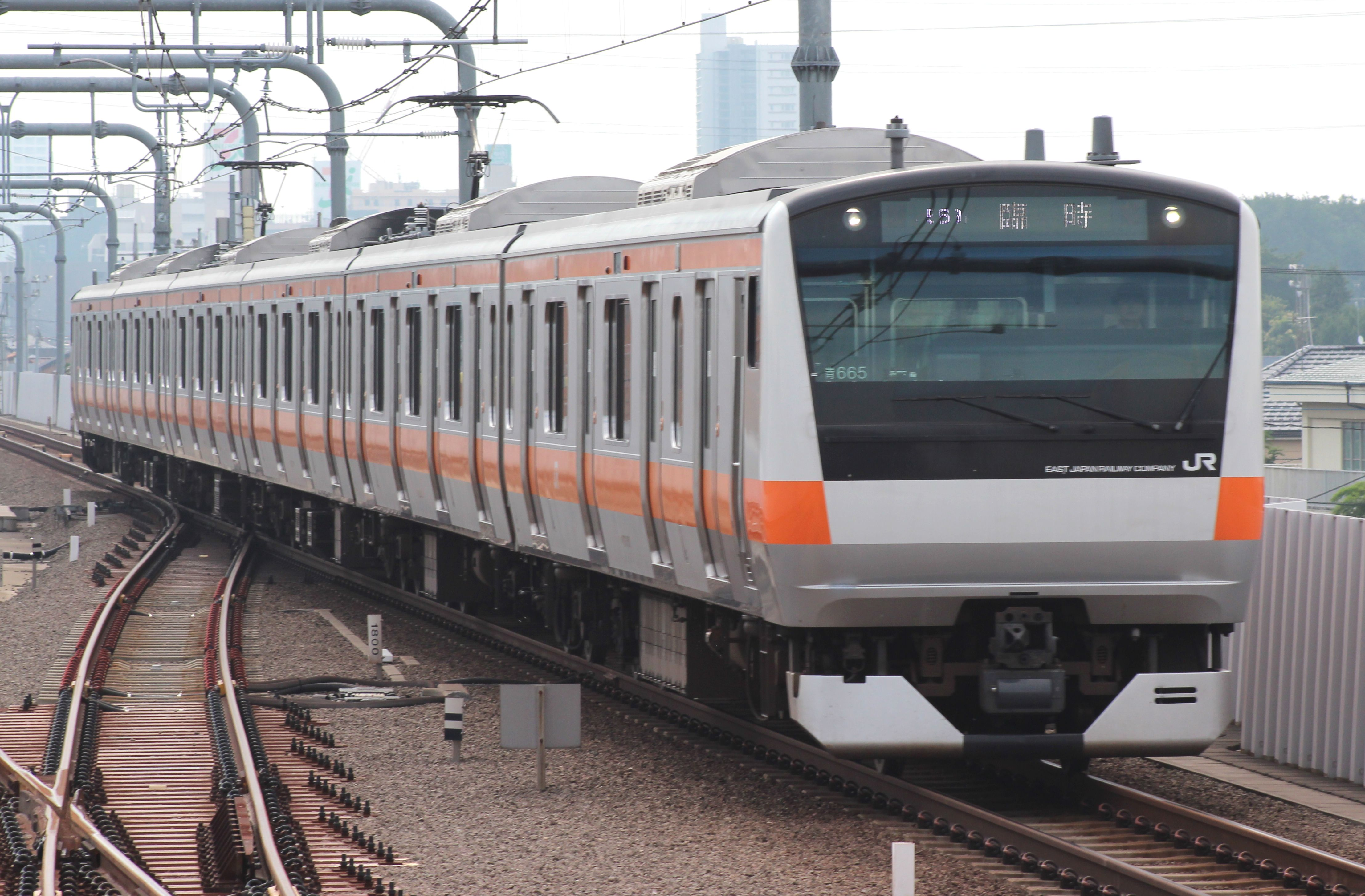 JR East E233 series EMU 6-car set Ao665 approaching Higashi-Koganei Station on the Chuo Line on a special Yamanashi Fuji rapid service